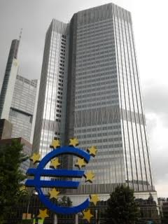 Building of the European Central Bank (ECB), Frankfurt